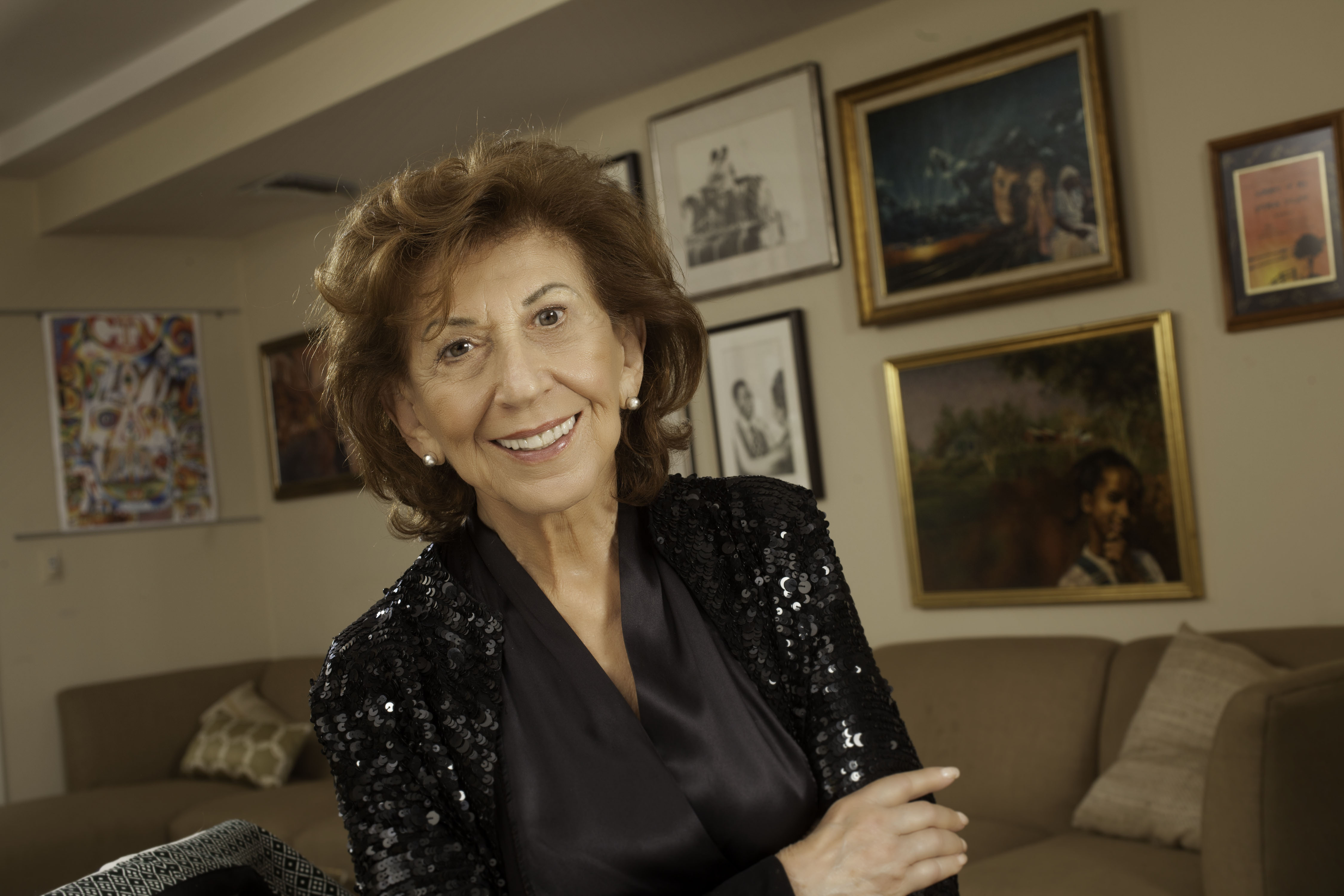 Portrait of Bette Greene in her Boston, MA home surrounded by original artwork inspired by her books.